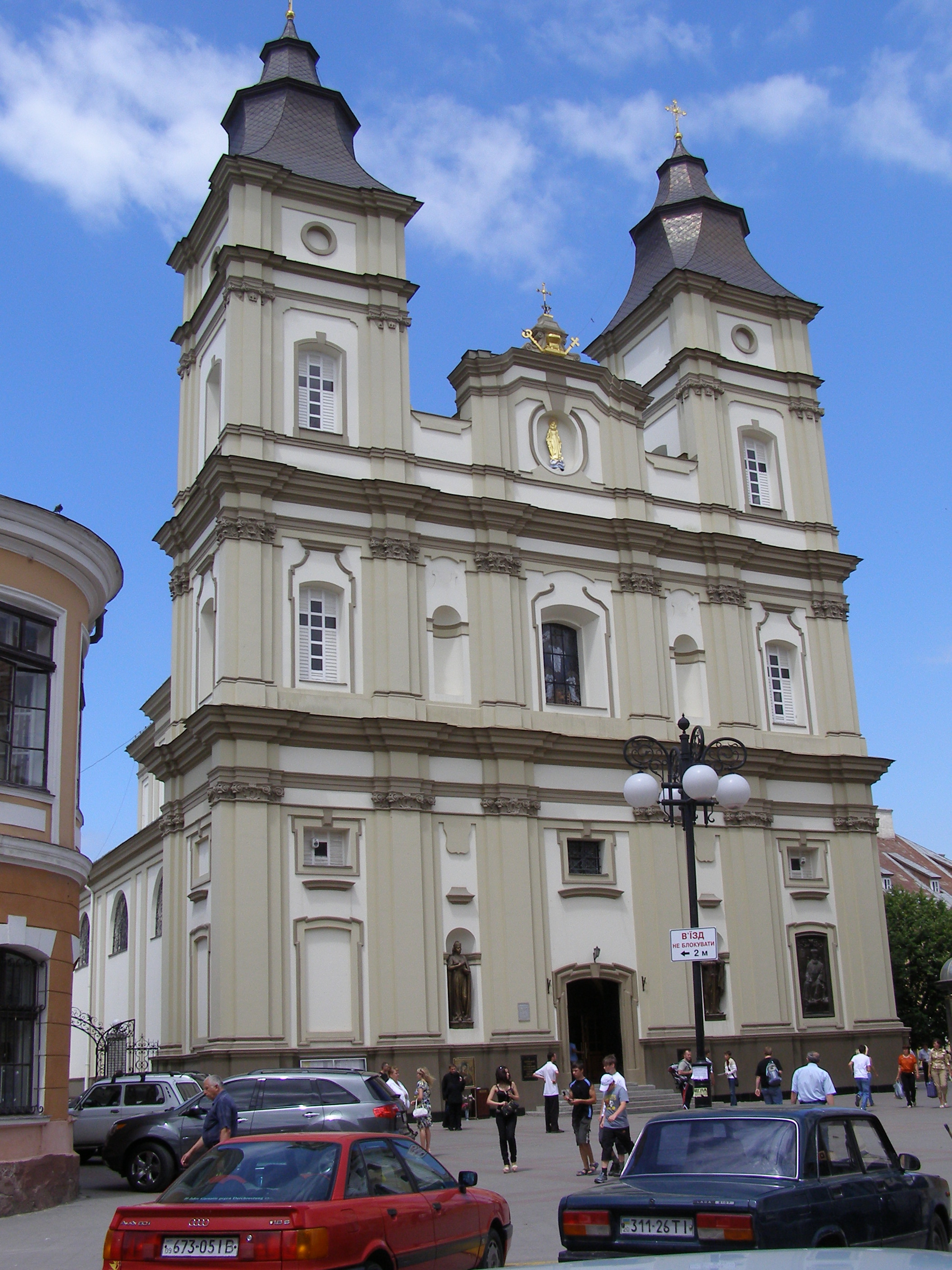 Greek-Catholic Cathedral in Ivano-Frankivsk, western Ukraine.